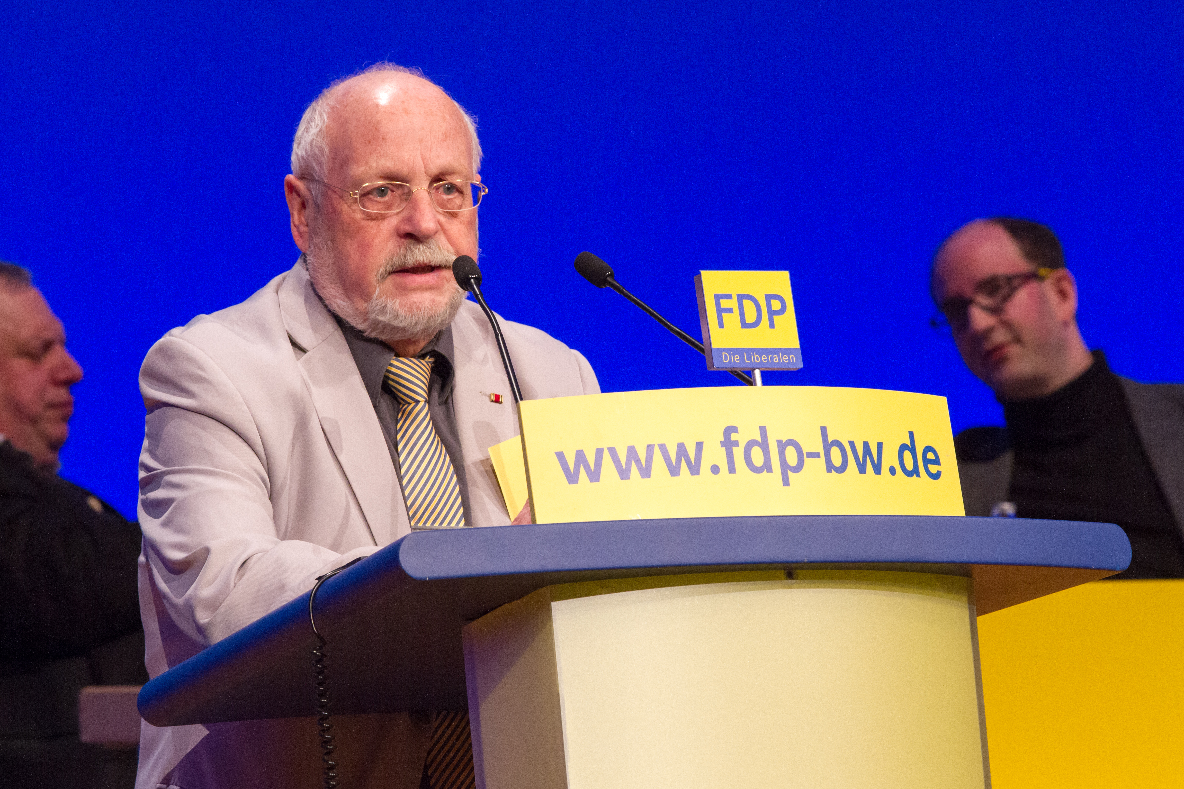 Series: 112th regular party convention of the FDP Baden-Württemberg in Stuttgart on January 5th, 2015 Image: Tom Høyem